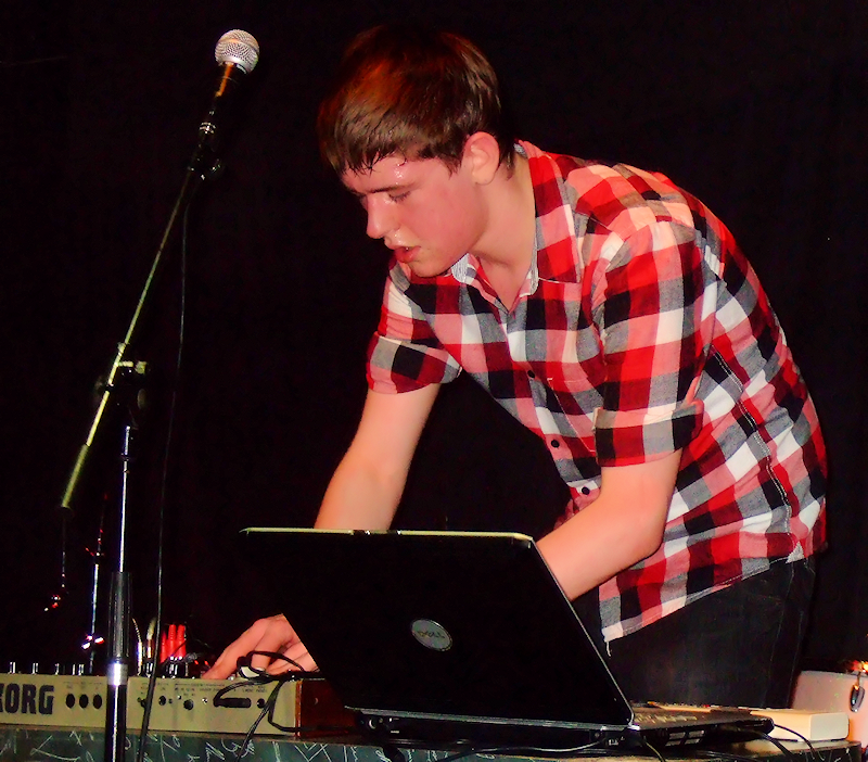 The Unicorn Kid at The Dundee Doghouse, 16th November 2008